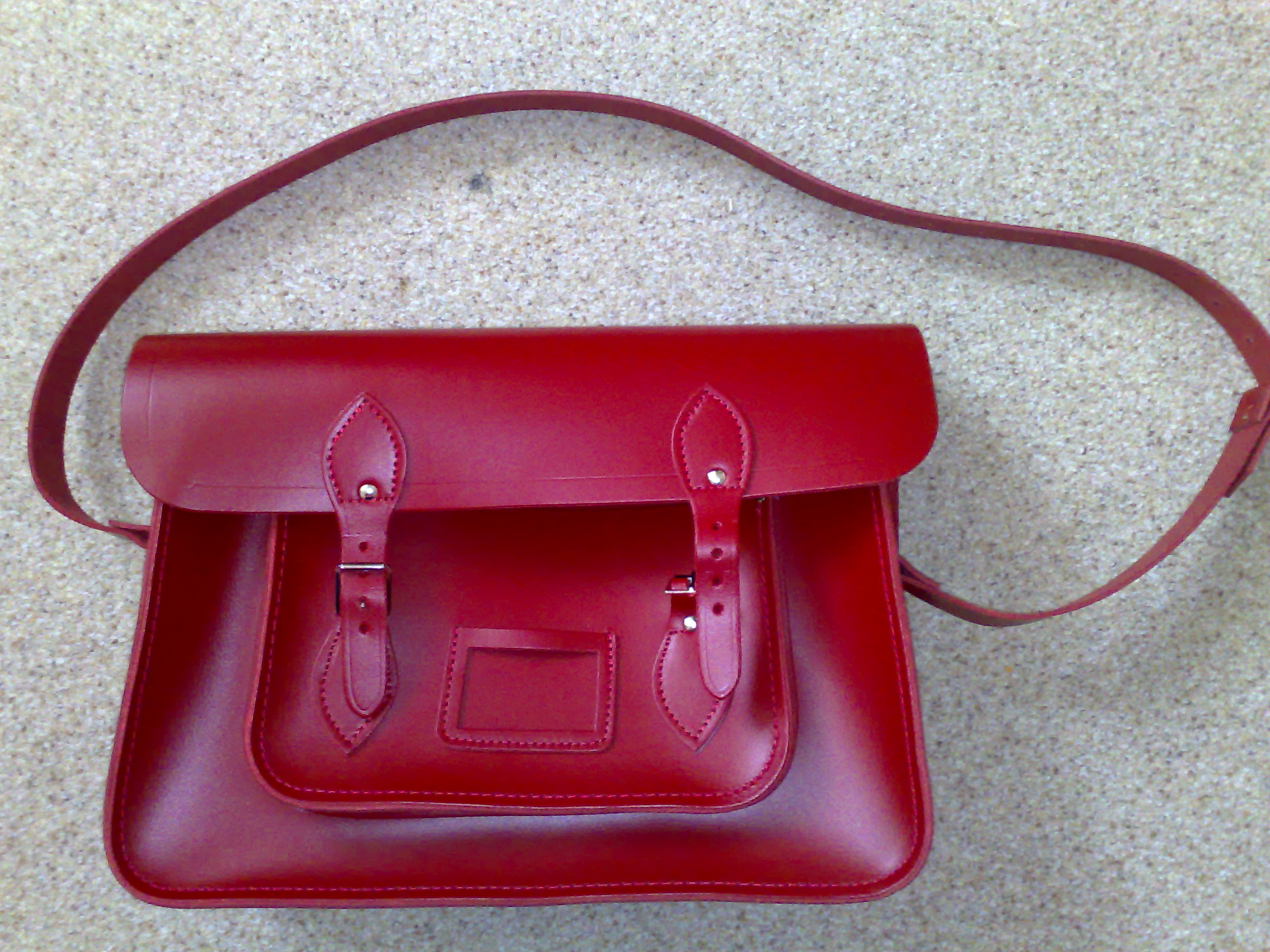 A red satchel made by Cambridge Satchel Company, UK.